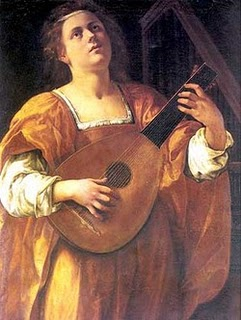 Portrait of Maddalena Casulana.